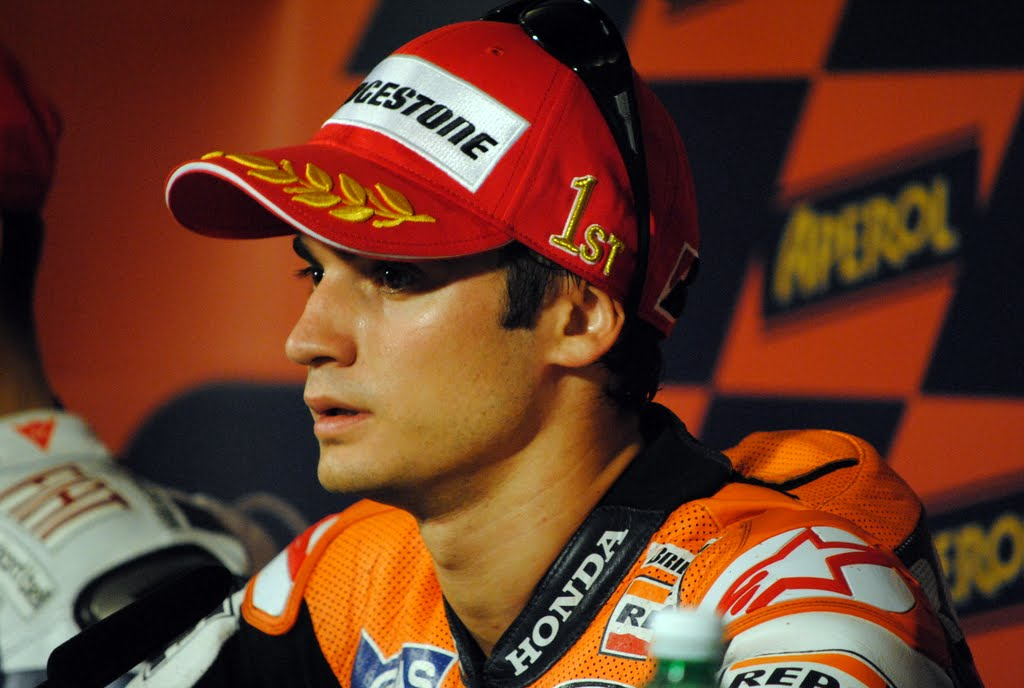 Dani Pedrosa 2010 Misano